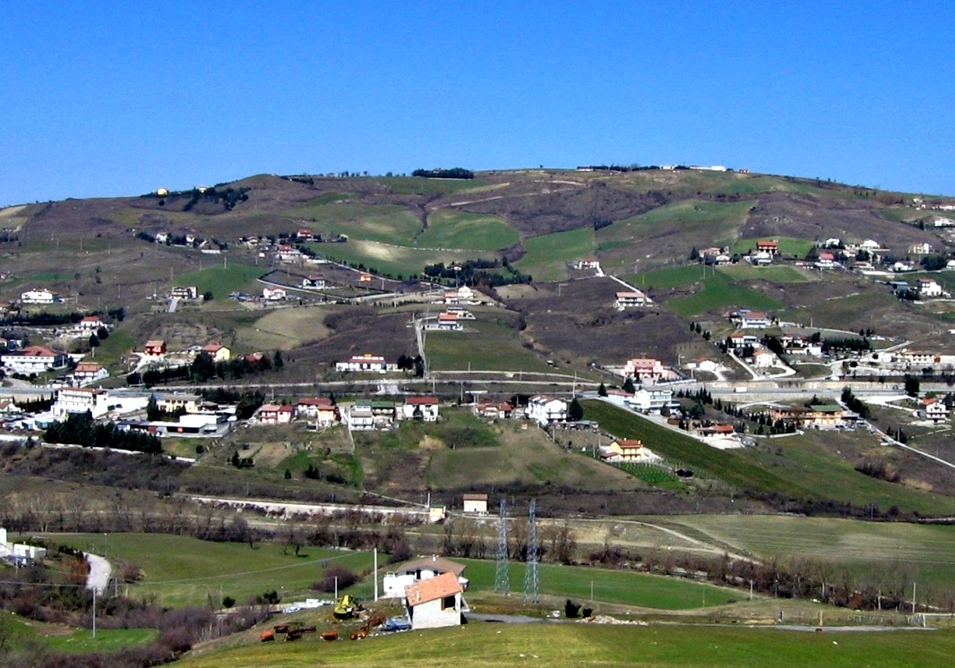 It is a very slow-moving earthflow located in Potenza, Italy. Even though it moves just some mm/year and is hardly visible, this landslide causes progressive damage to the national road, the national highway, a flyover and several houses that were built on it.